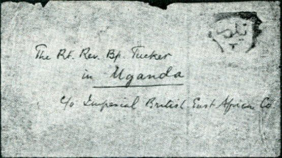 Handstamp of the Kingdom of Bunyoro on a cover addressed to Bishop Arthur Tucker of the Church Missionary Society. From Robson Lowe, Robson Lowe, "The Uganda Missionaries", a supplement to The Philatelist (August, 1974); Robson Lowe, London (1974), p. 4.